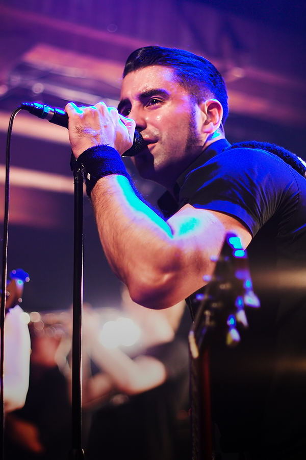 Concert Photo of Sammy of The Broilers in Hamburg, Fabrik, 15.05.2009